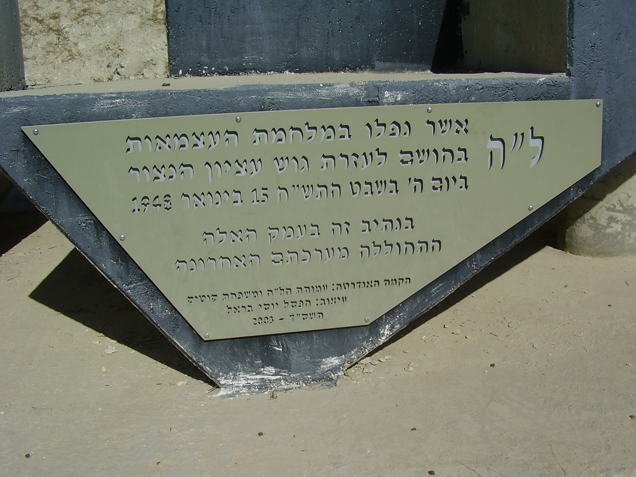 the convoy of 35 memorial near kibbutz netiv halamed-hey.